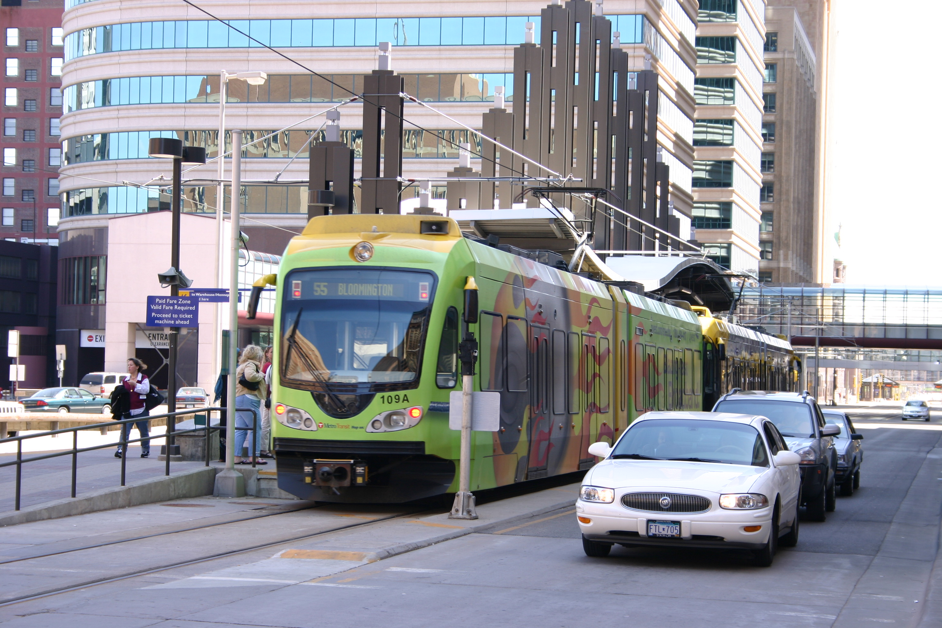 Hiawatha Line LRT, Minneapolis, Minnesota